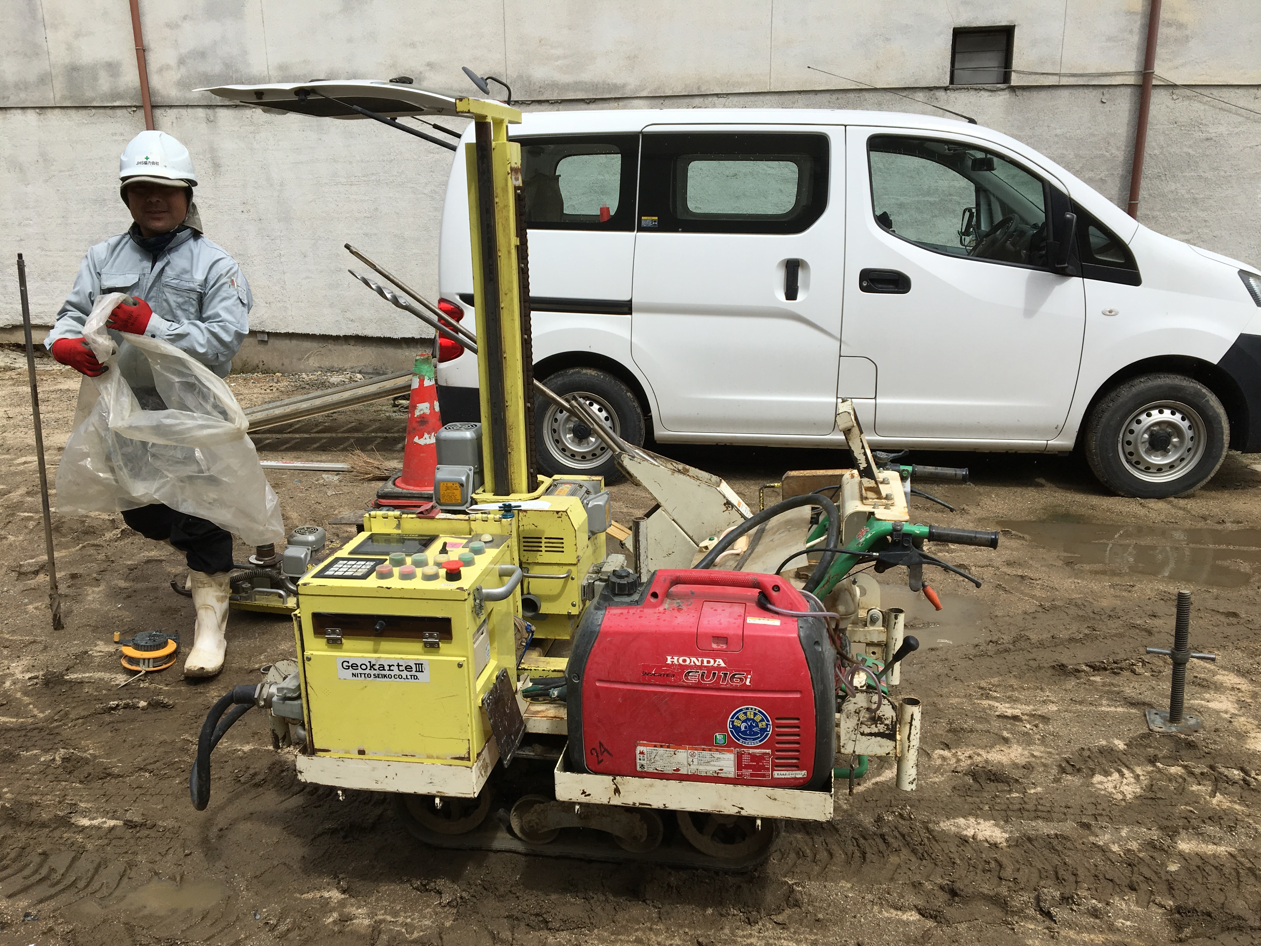 Method for Swedish weight sounding test (Geotechnical investigation) JAPAN